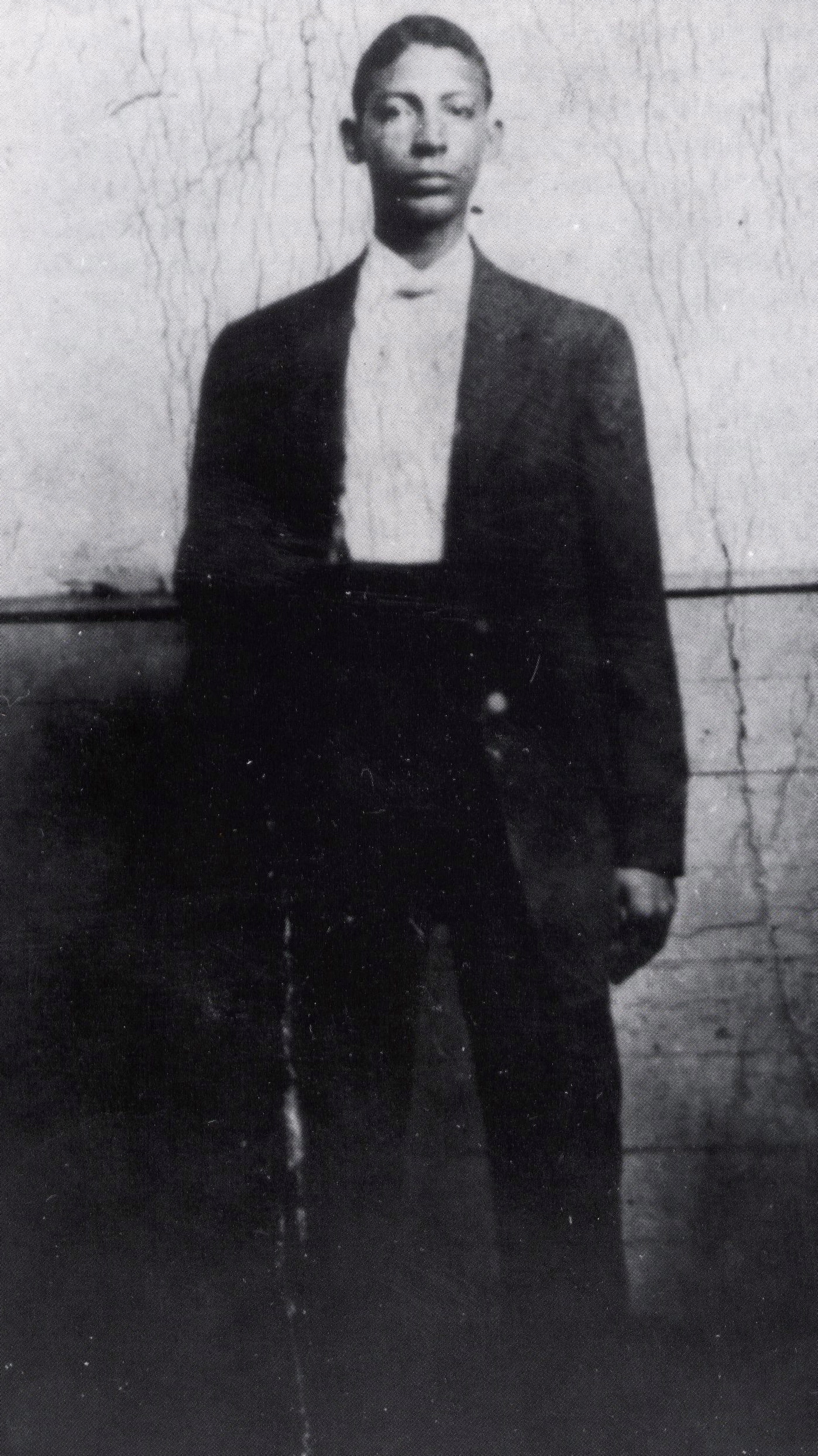 Photograph of Jelly Roll Morton in his teenaged years. According to jazz historian William Russell, may be earliest known photo of Morton, showing him at about age 17, about 1906.